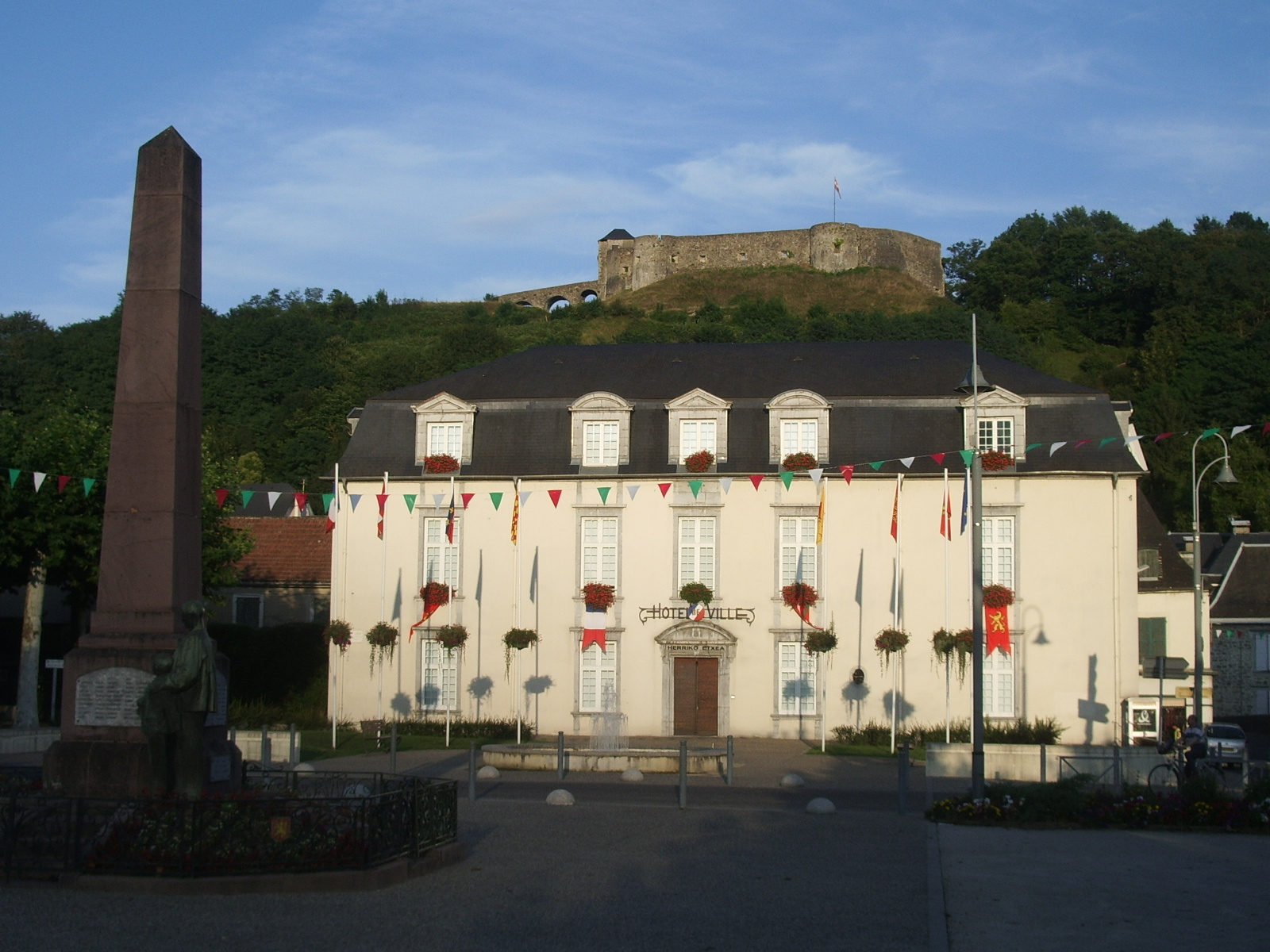 City Hall and Castle, Maule, France